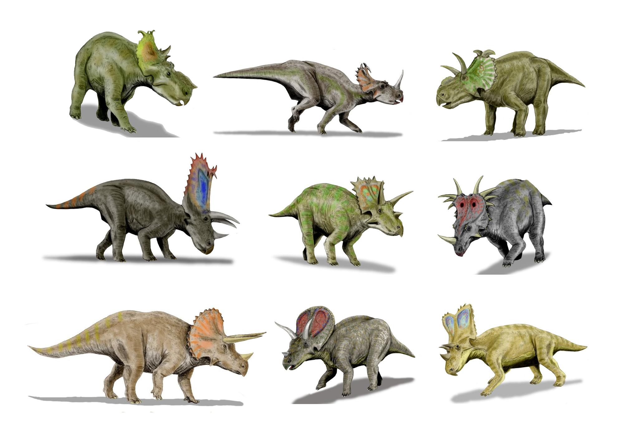 Ceratopsidae